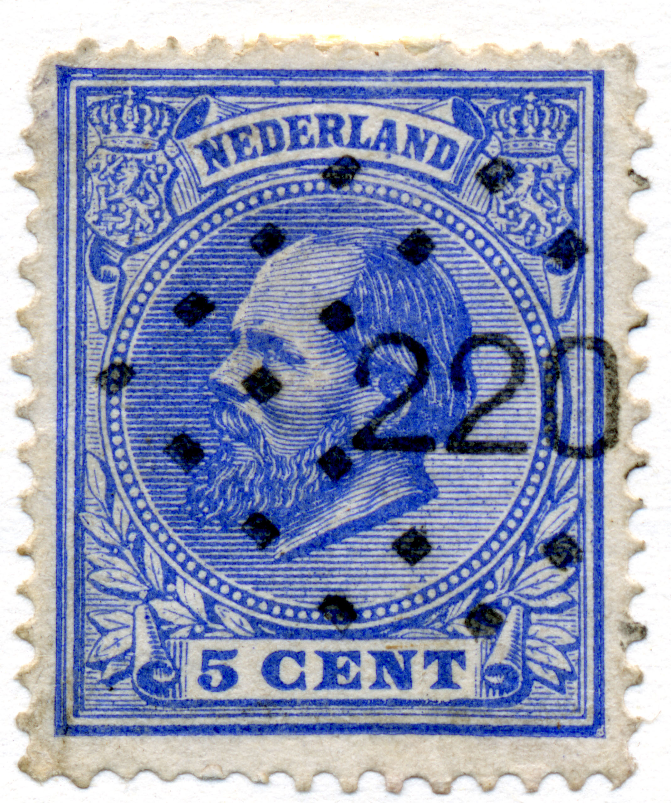 Koning Willem III 5 cent (1872-1888)